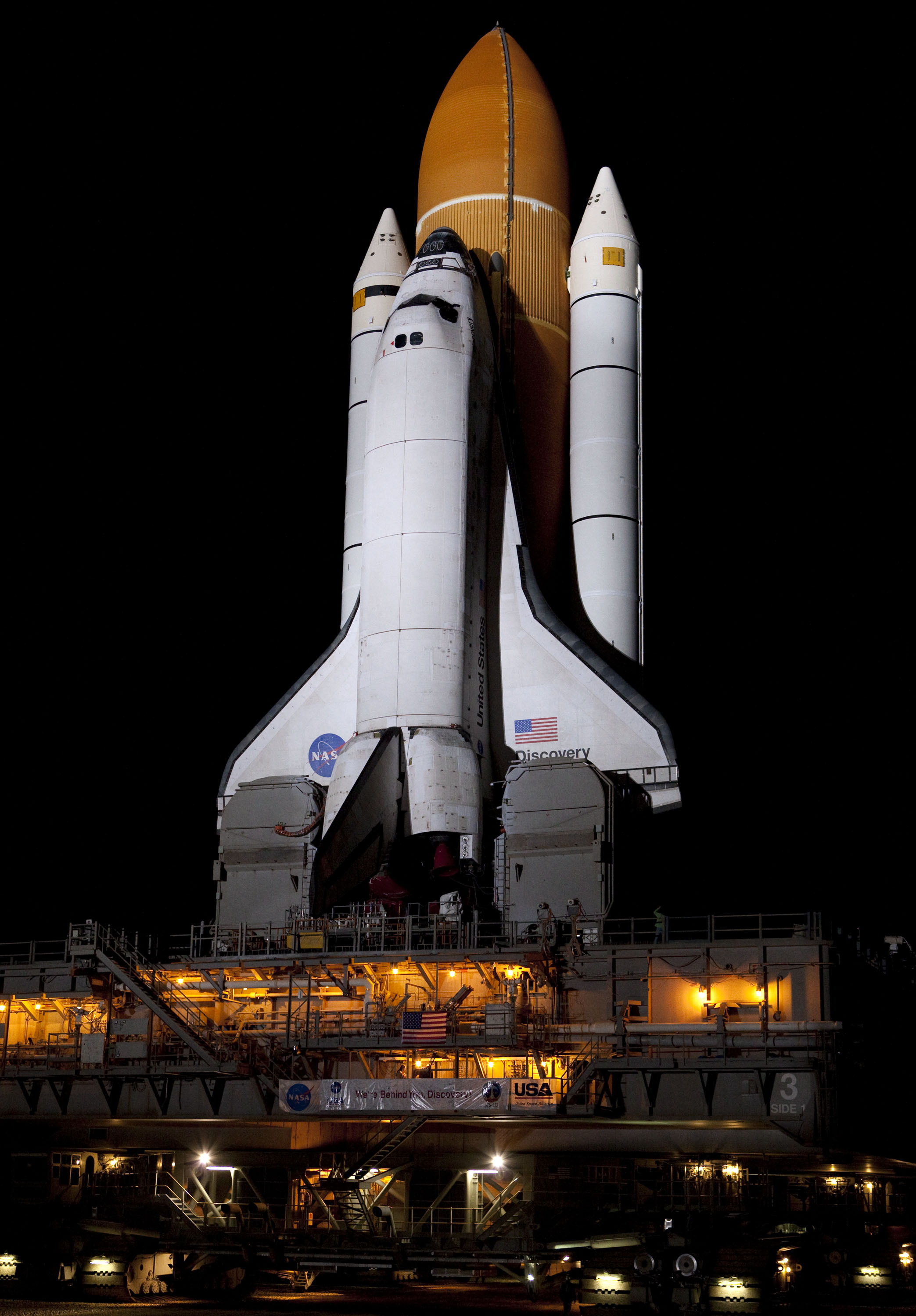 CAPE CANAVERAL, Fla. -- Xenon lights illuminate space shuttle Discovery as it makes its nighttime trek, known as "rollout," from the Vehicle Assembly Building to Launch Pad 39A at NASA's Kennedy Space Center in Florida. It will take the shuttle, attached to its external fuel tank, twin solid rocket boosters and mobile launcher platform, about seven hours to complete the move. This is the second time Discovery has rolled out to the pad for the STS-133 mission, and comes after a thorough check and modifications to the shuttle's external tank. Targeted to liftoff Feb. 24, Discovery will take the Permanent Multipurpose Module (PMM) packed with supplies and critical spare parts, as well as Robonaut 2 (R2) to the International Space Station.